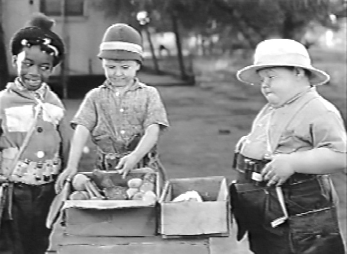 Promotional still from the short subject Bear Shooters. Original copyright 1930 MGM, not renewed. Used to illustrate film being described.